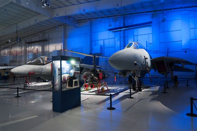 Museum's F-14D was the last F-14 to drop ordinance on a target